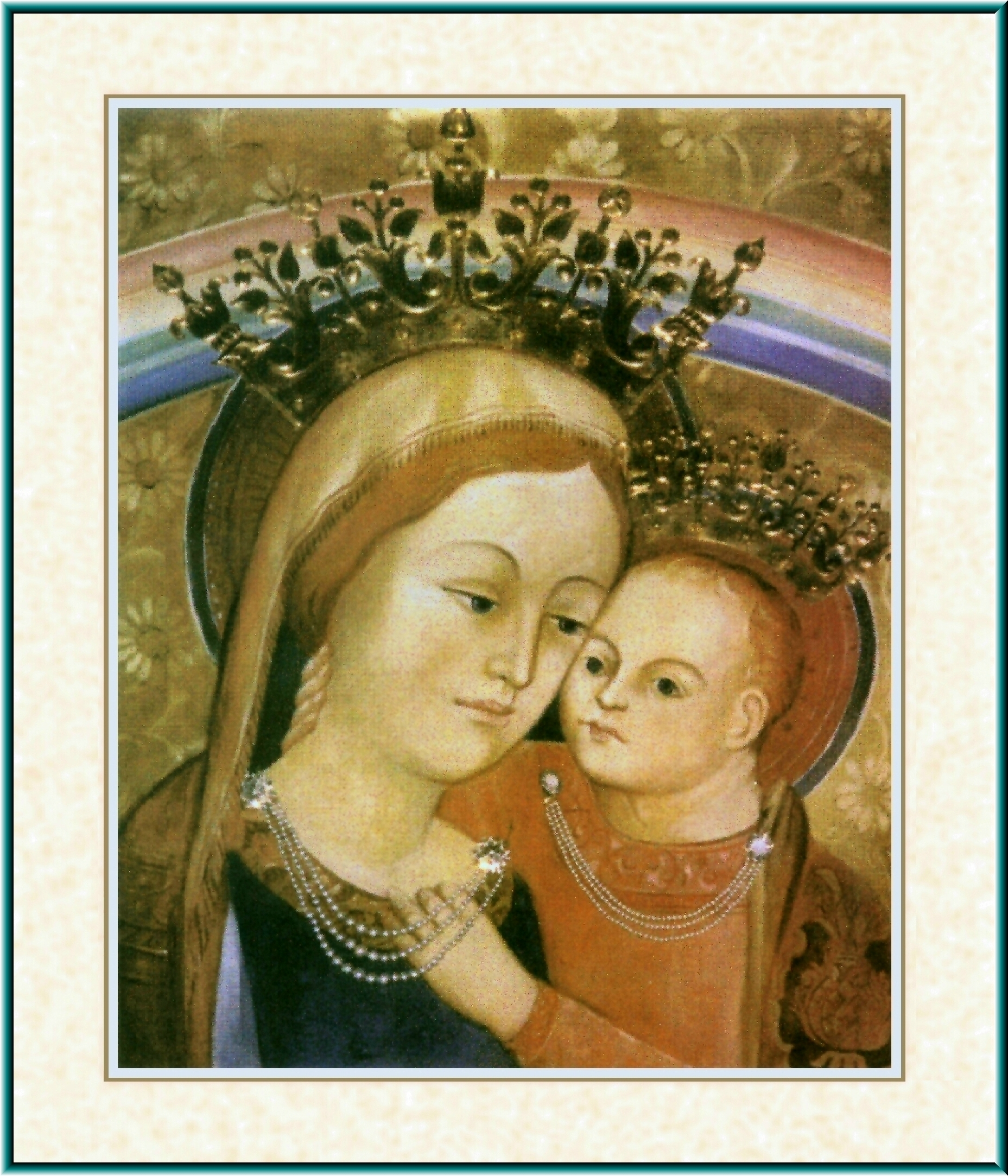 Kraków Prokocim - a copy of the painting of Our Lady of Good Counsel in the parish church